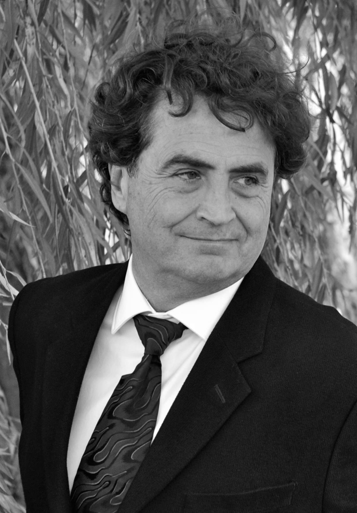 Fernando Menis